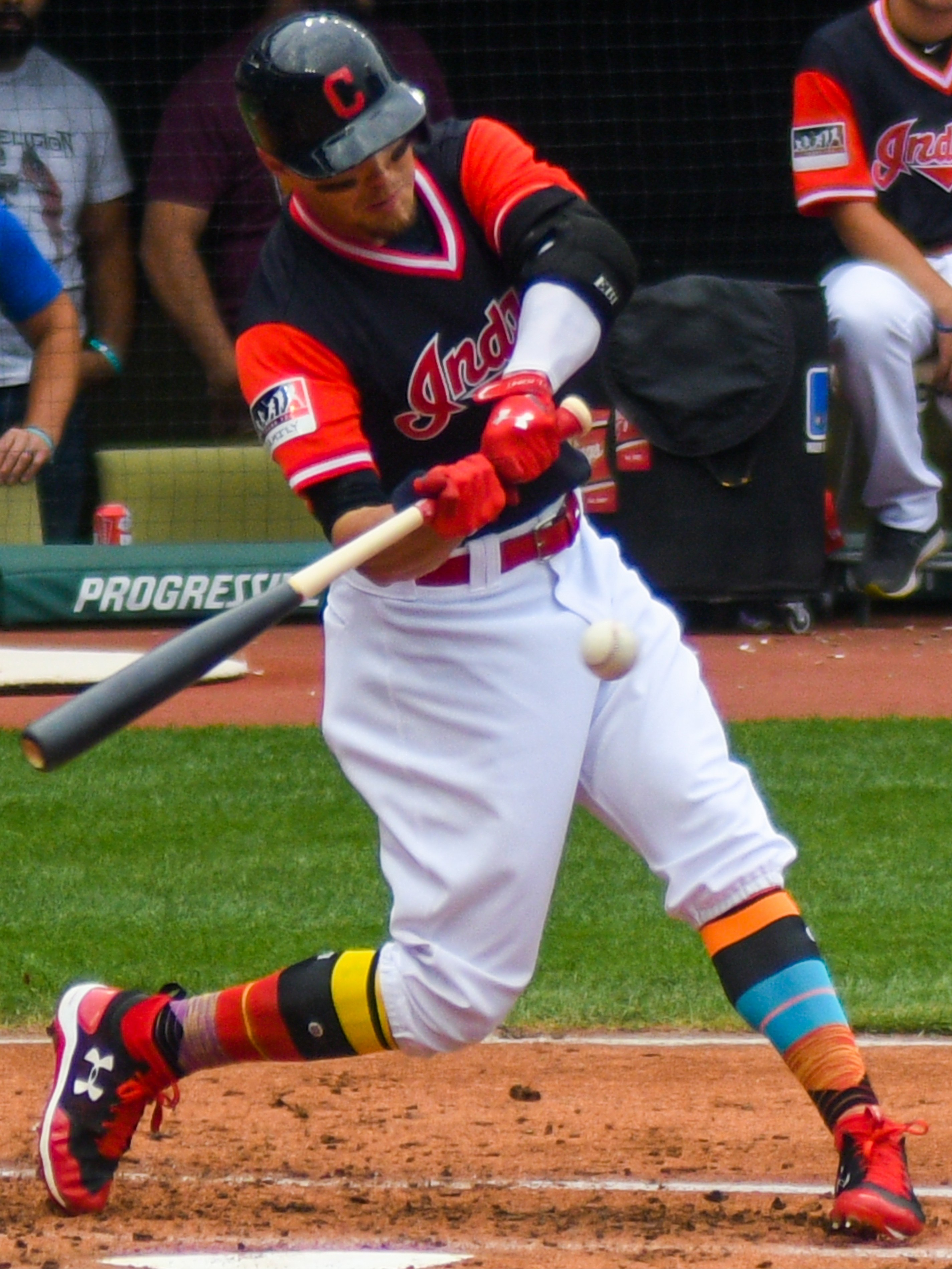 Brandon Guyer